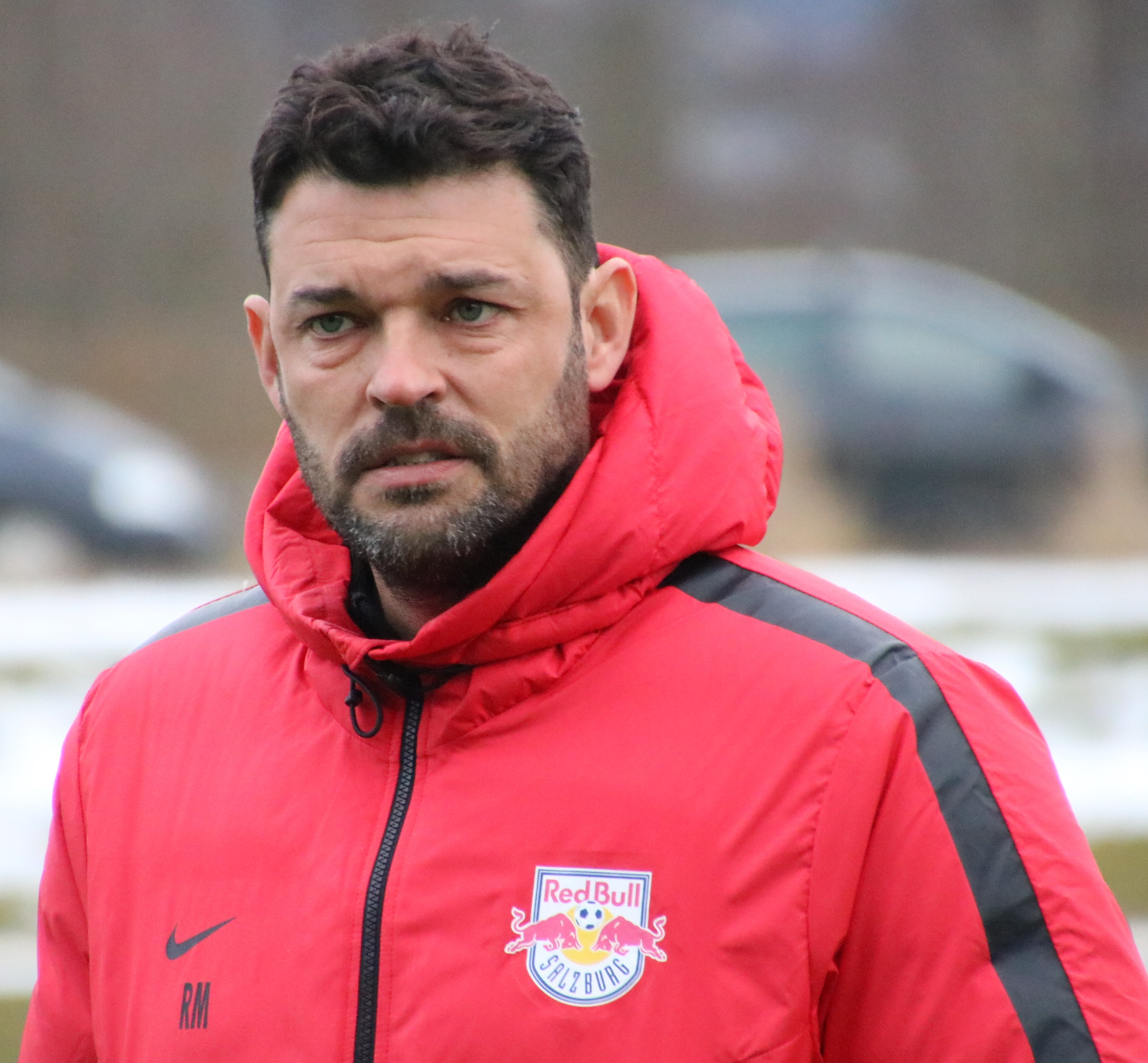 preseason match